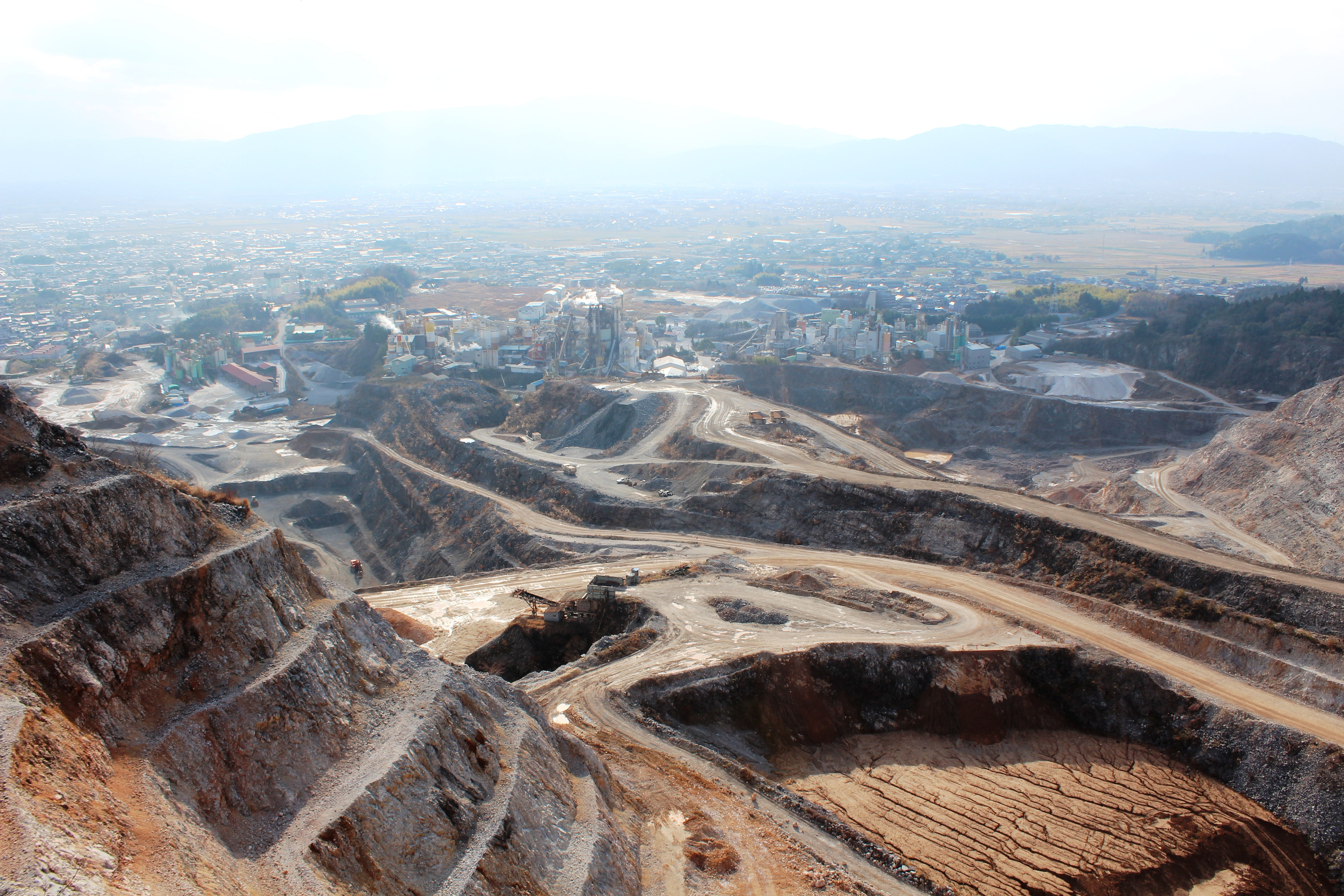 Mines in Mount Kinsho in Japan.